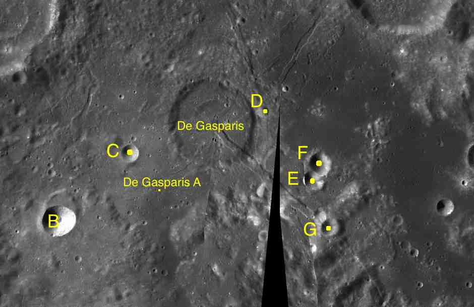 Parts of the charts LAC-92, LAC-93 used for the presentation